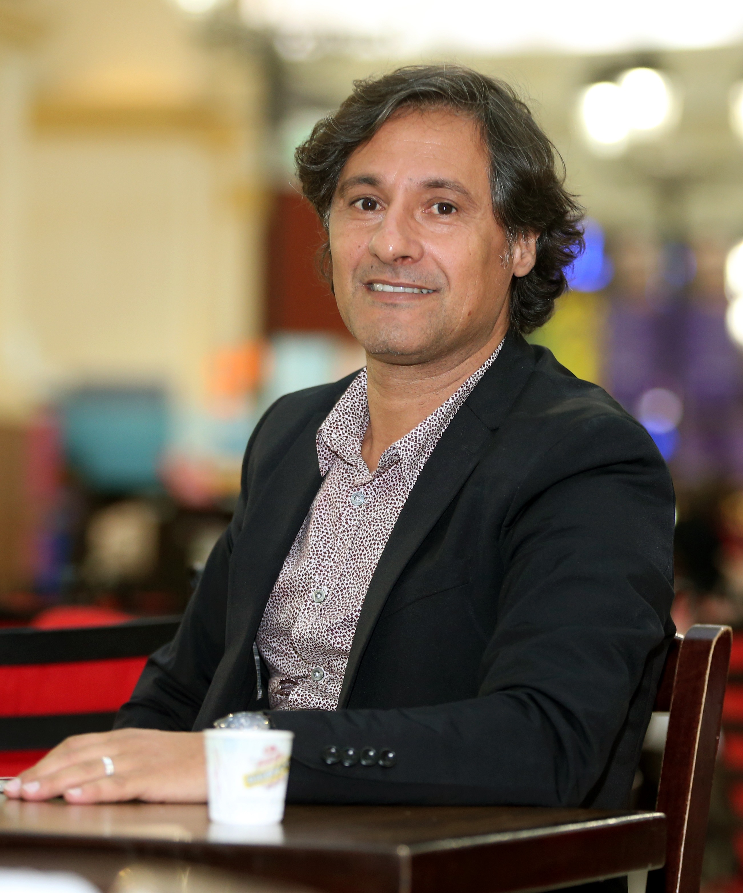 Qatar women's football team coach Abdelaziz Bennij during in Doha